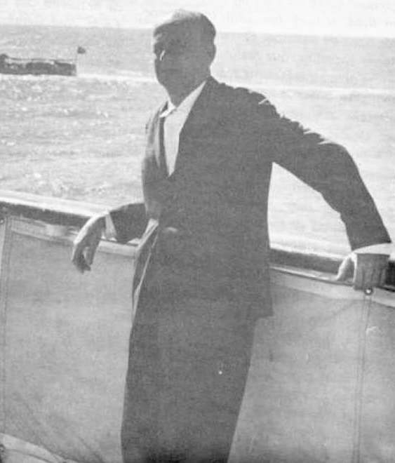 Photo of a younger Adonias Filho, near the coast of Angola, around the time he wrote "Luanda, Beira, Bahia""